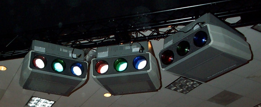 3 Electrohome Marquee projectors, for a Panoram Technologies GVR-120. At the "Electronic Schoolhouse" at Siggraph 99.